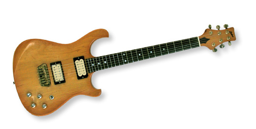 Leduc Guitar, model: "Clean", year: 1984, Maple body and neck-through, ebony fingerboard, SH2 S. Duncan pickups.